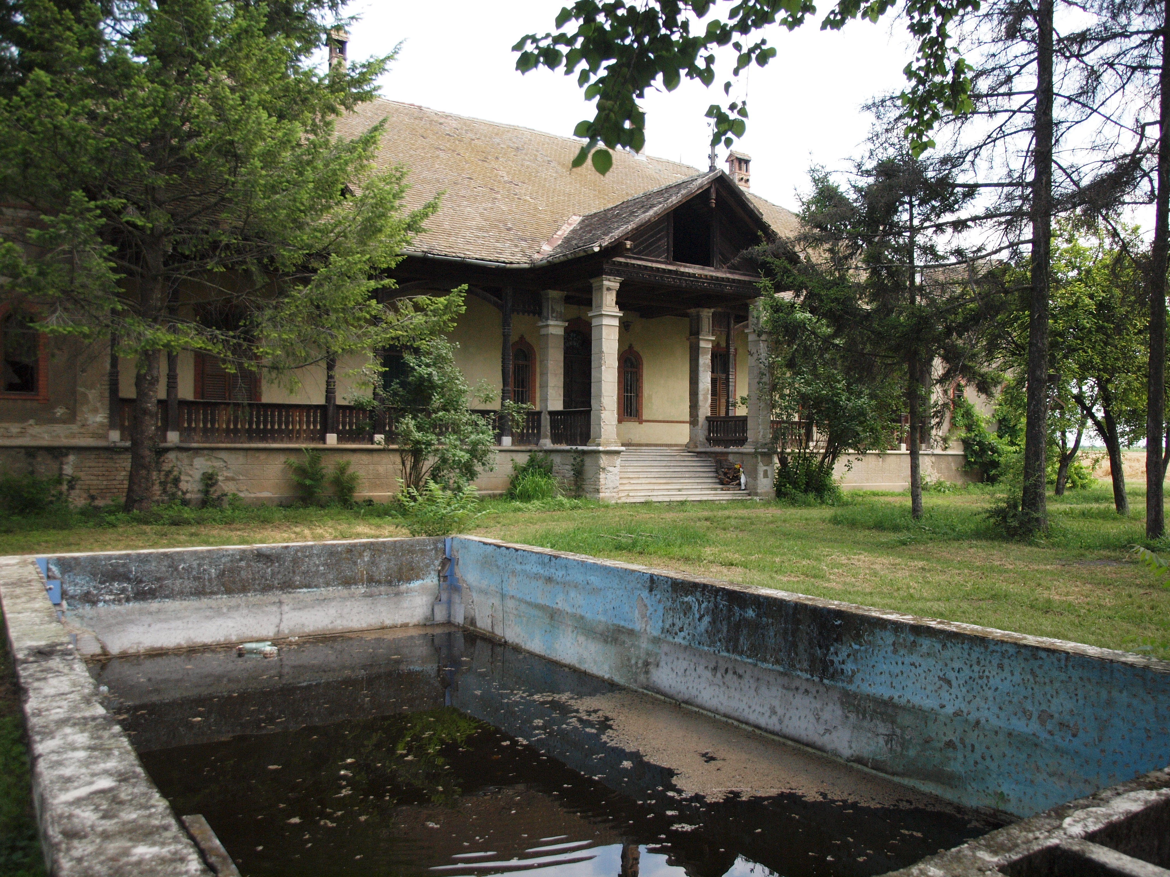 Castle at the count Pejacevic Salas Erem